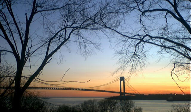 Another view of the Verrazano Bridge